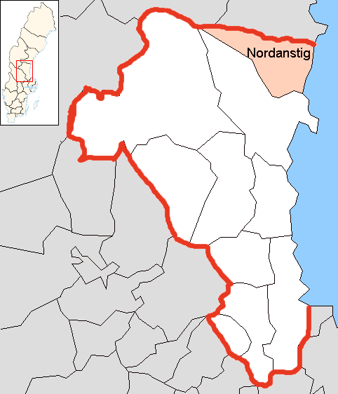 Nordanstig Municipality in Gävleborg County Designd by me, based on Image:Gävleborg County.png